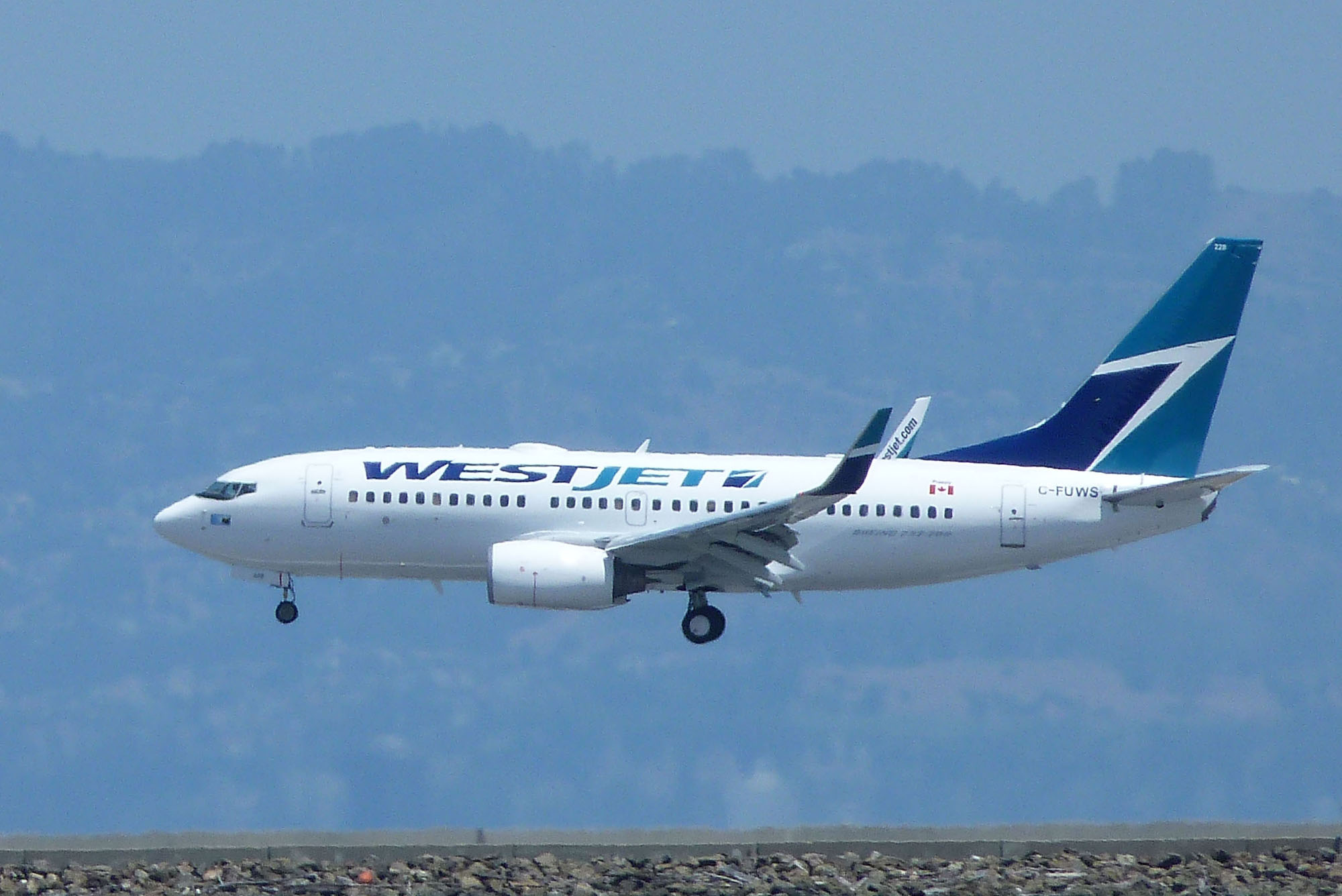 Westjet Boeing 737 at San Francisco International Airport